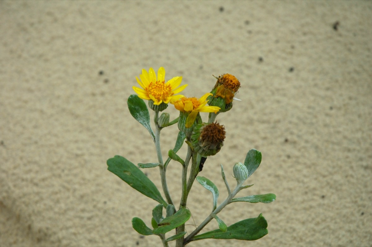 Senecio crassiflorus on the dunes at Rio Grande do Sul.